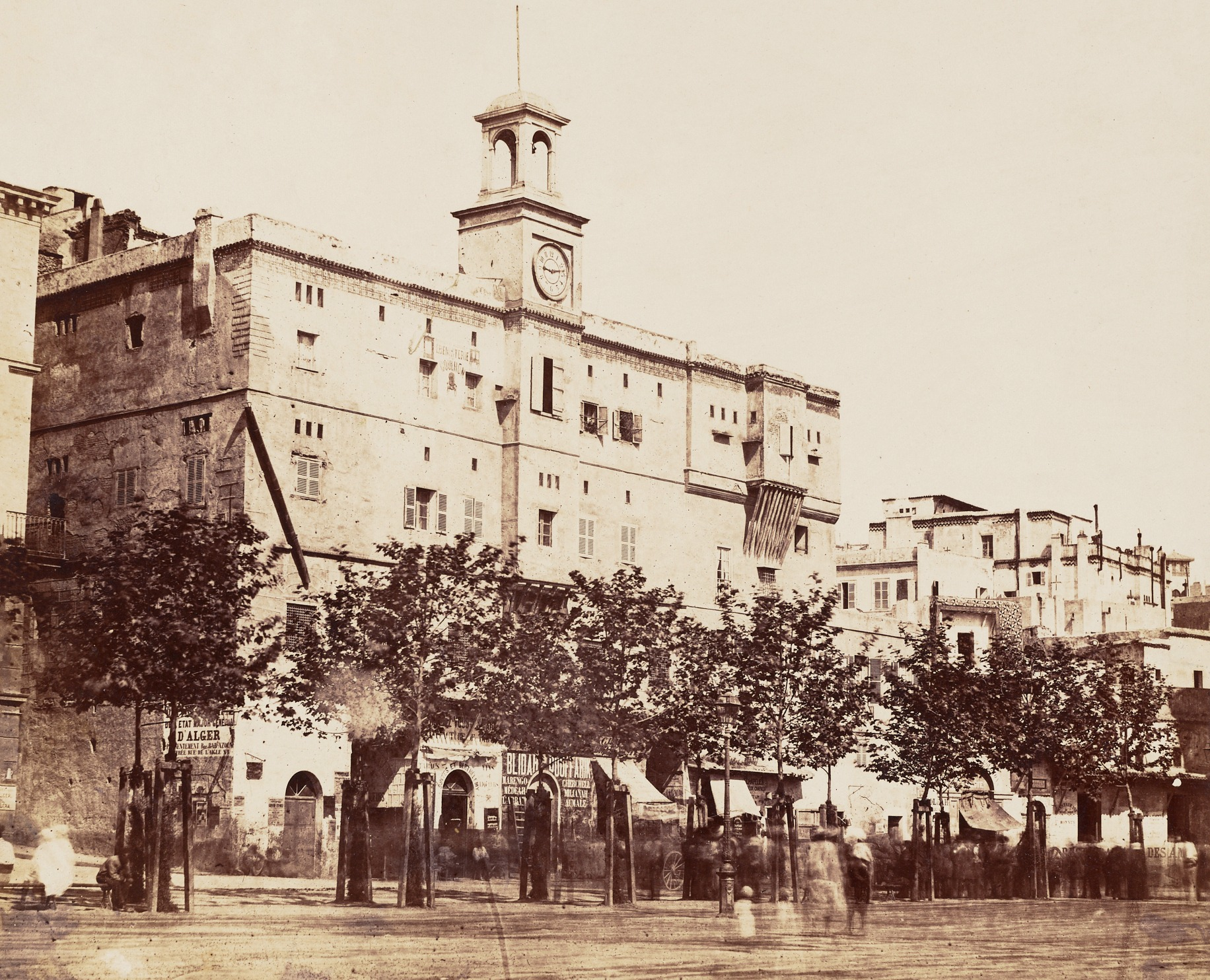 Palais de la Djénina (Paşa Kapısı (Porte du Pacha) en turc ottoman) à Alger (Algérie), ancienne résidence des deys (XVIIe-XIXe siècles).